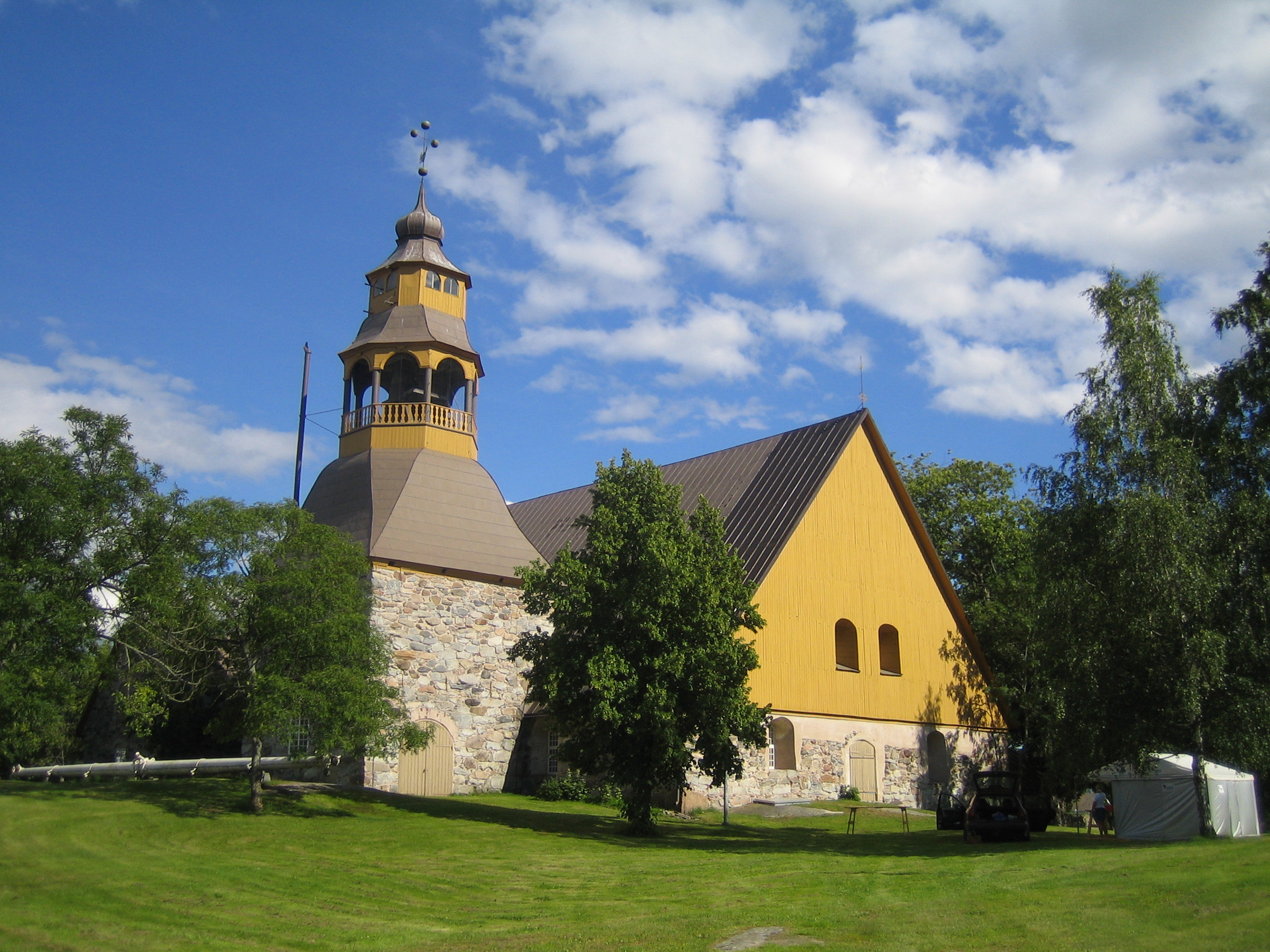 The old church of Uusikaupunki, Finland.